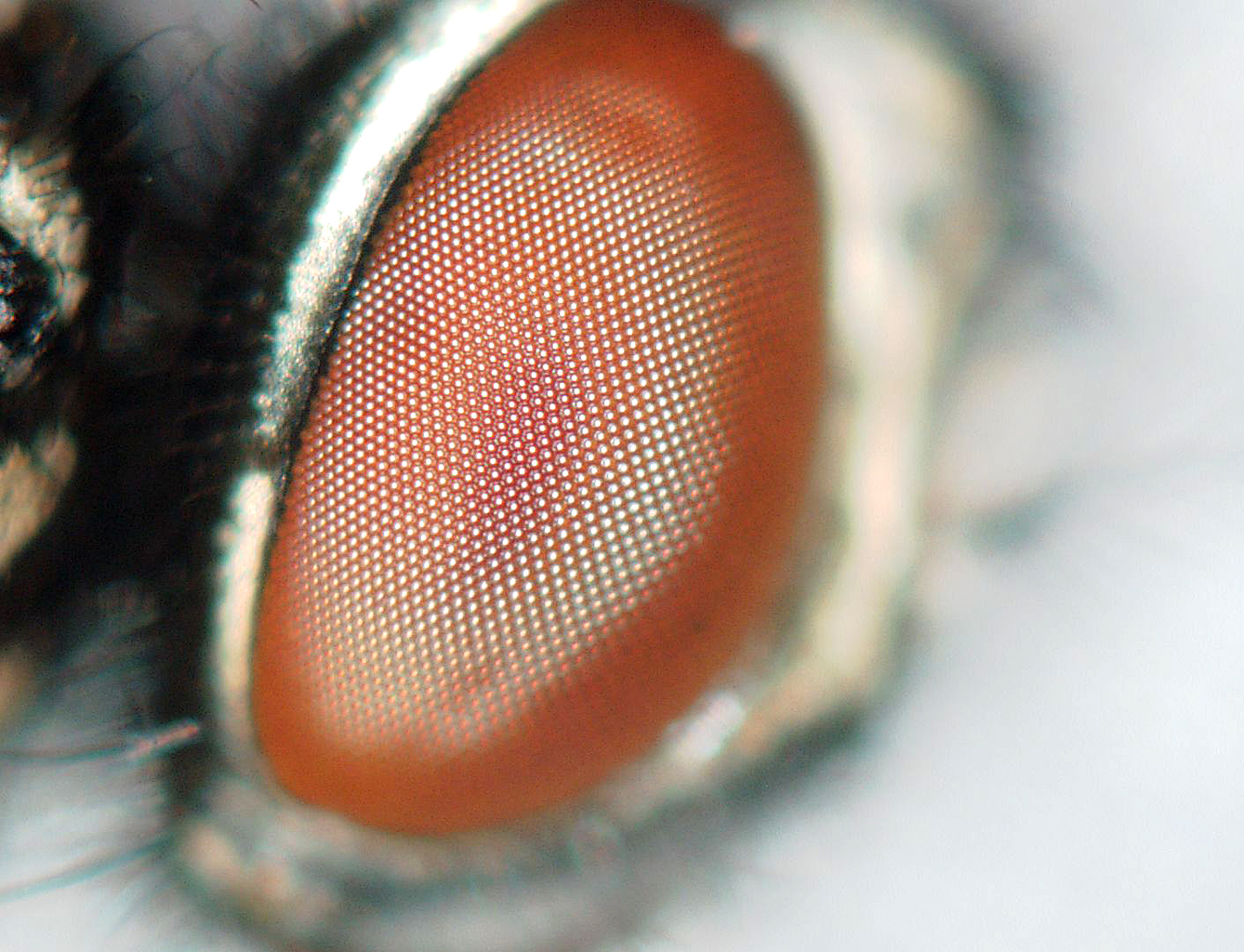 Eyes of the beholder